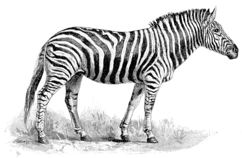 Fig. 127.—Burchell's Zebra. Equus burchelli. × 1⁄20. Now regarded as the same species as E. quagga, which name takes priority despite the extinction of its nominal subspecies.